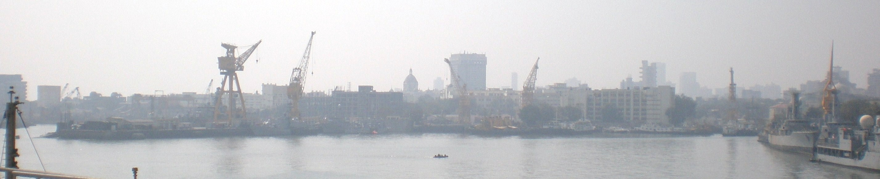 View of the Naval Dockyard on Mumbai's east coast